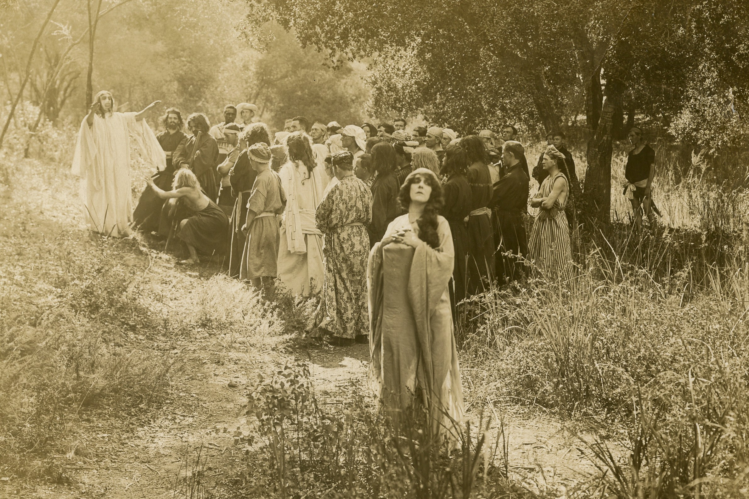 Still from the 1914 silent film Mary Magdalene showing Constance Crawley (center) in the starring role